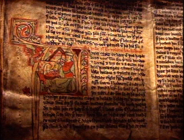 Saga of the Icelanders (XIII Century)